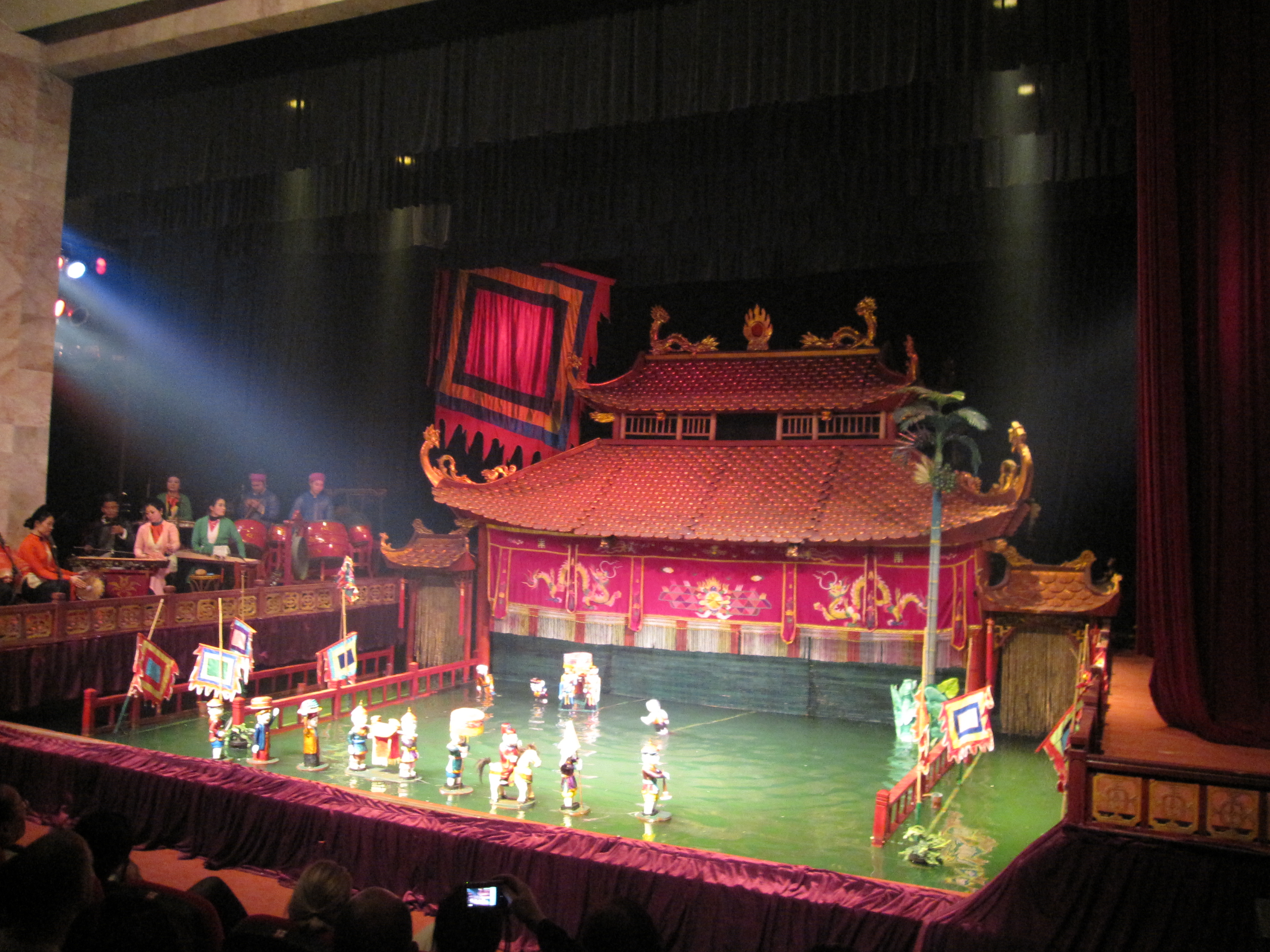 Thang Long Water Puppet Theatre in Hanoi